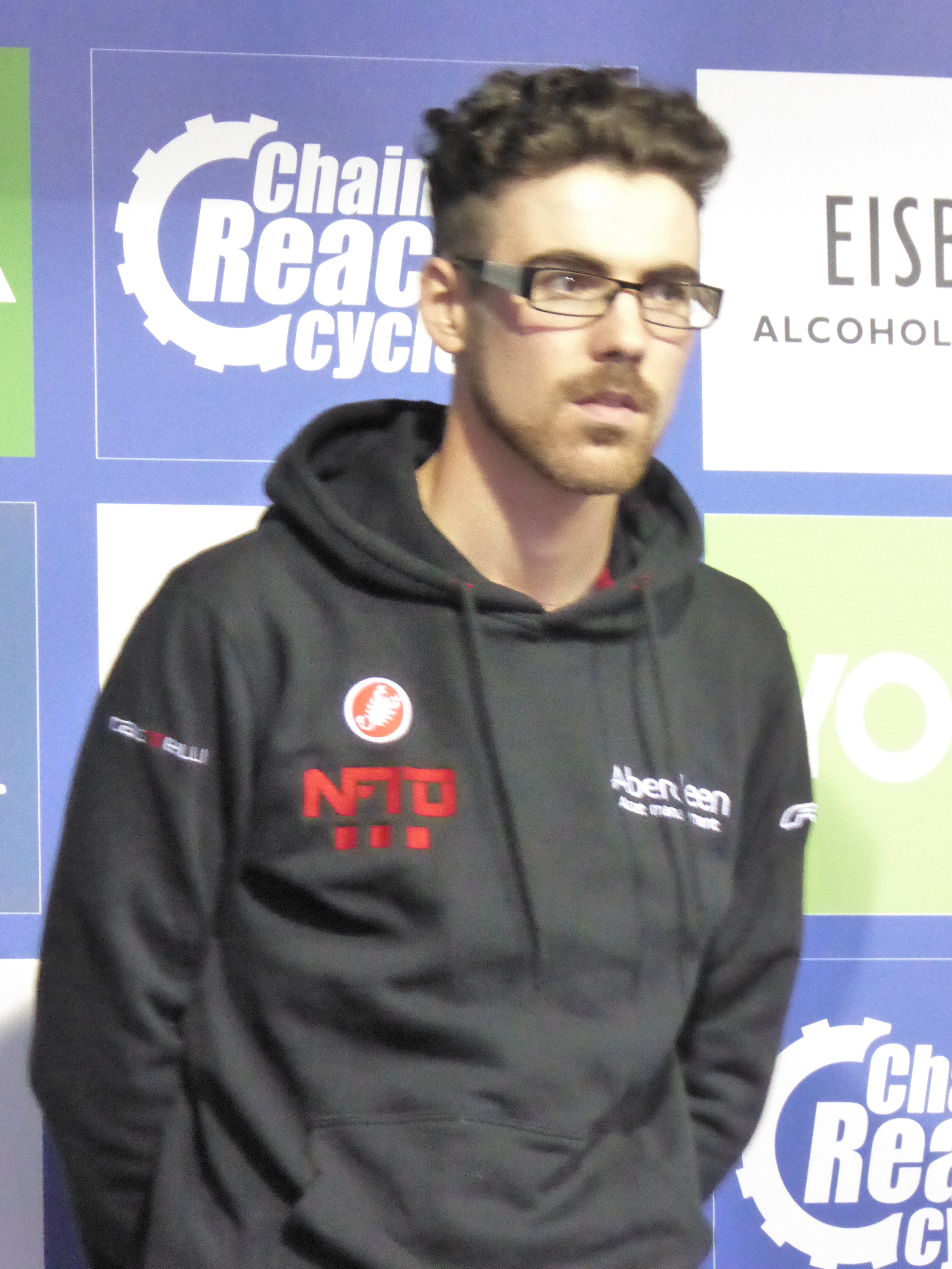 Edmund Bradbury (NFTO), pictured at the 2016 Tour of Britain team presentation in Glasgow on 3 September 2016.